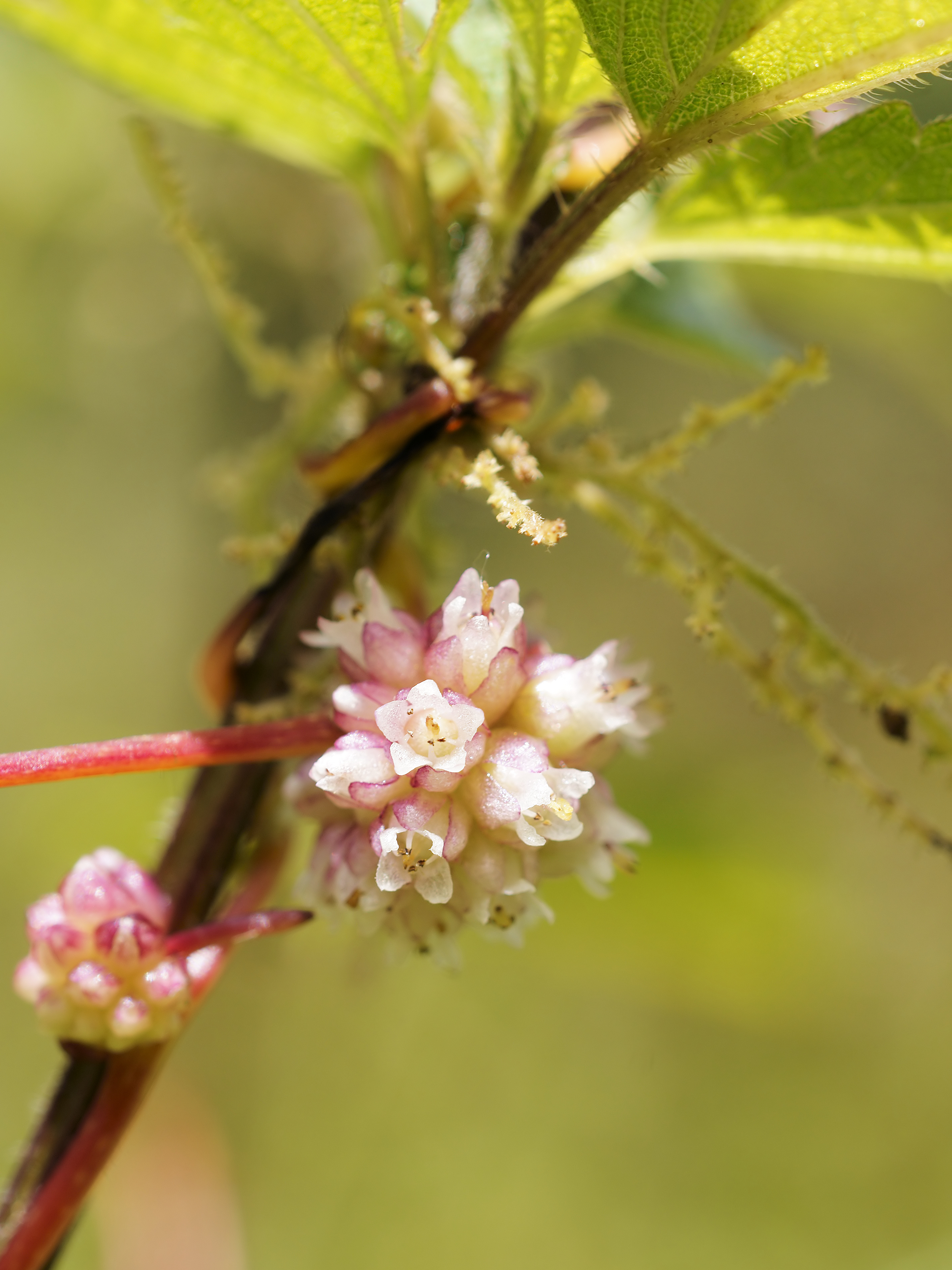 Greater Dodder, close to Visp, Wallis, Switzerland